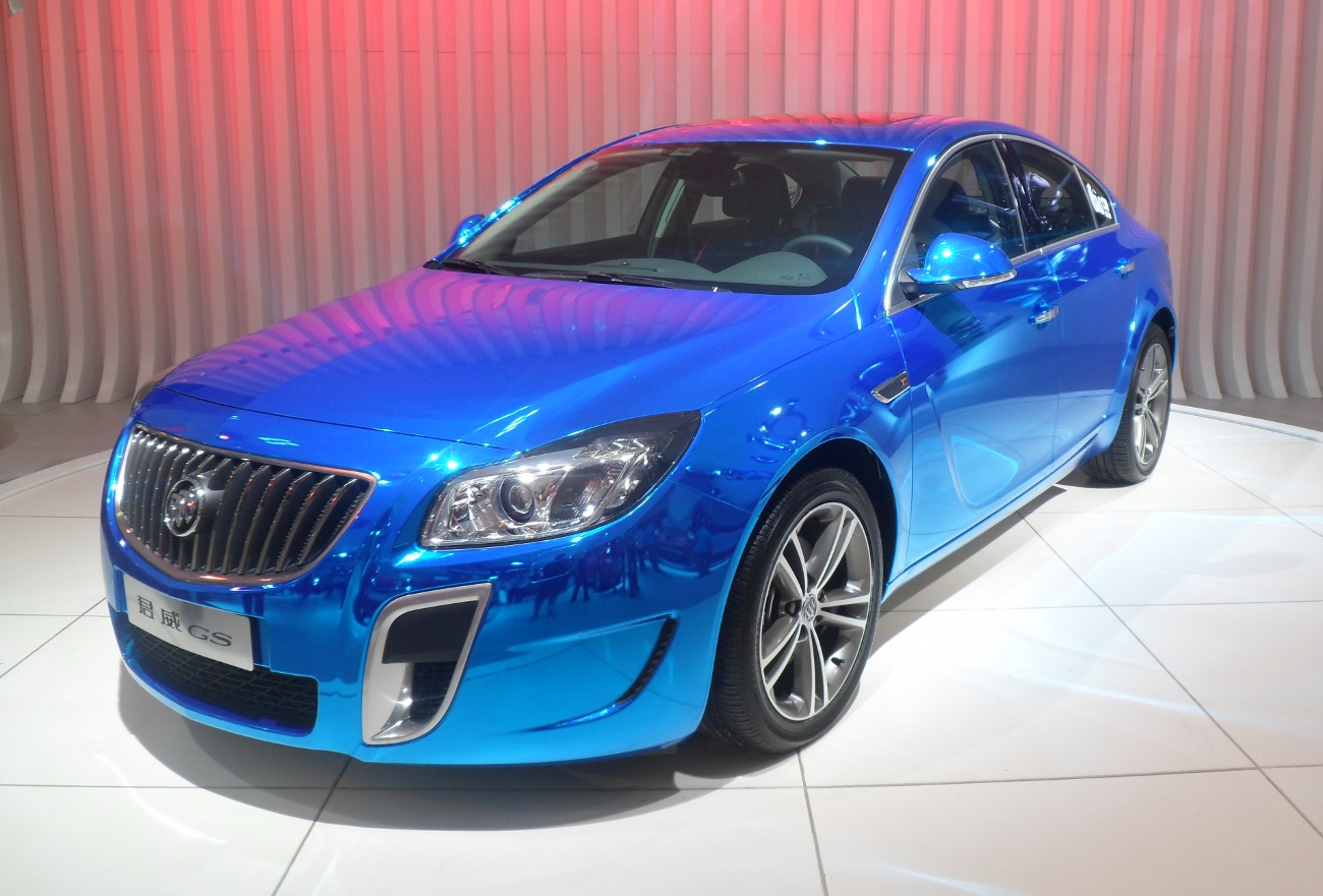 Buick Regal CN II GS photographed at the 2012 Chongqing Auto Show, Chongqing, China.